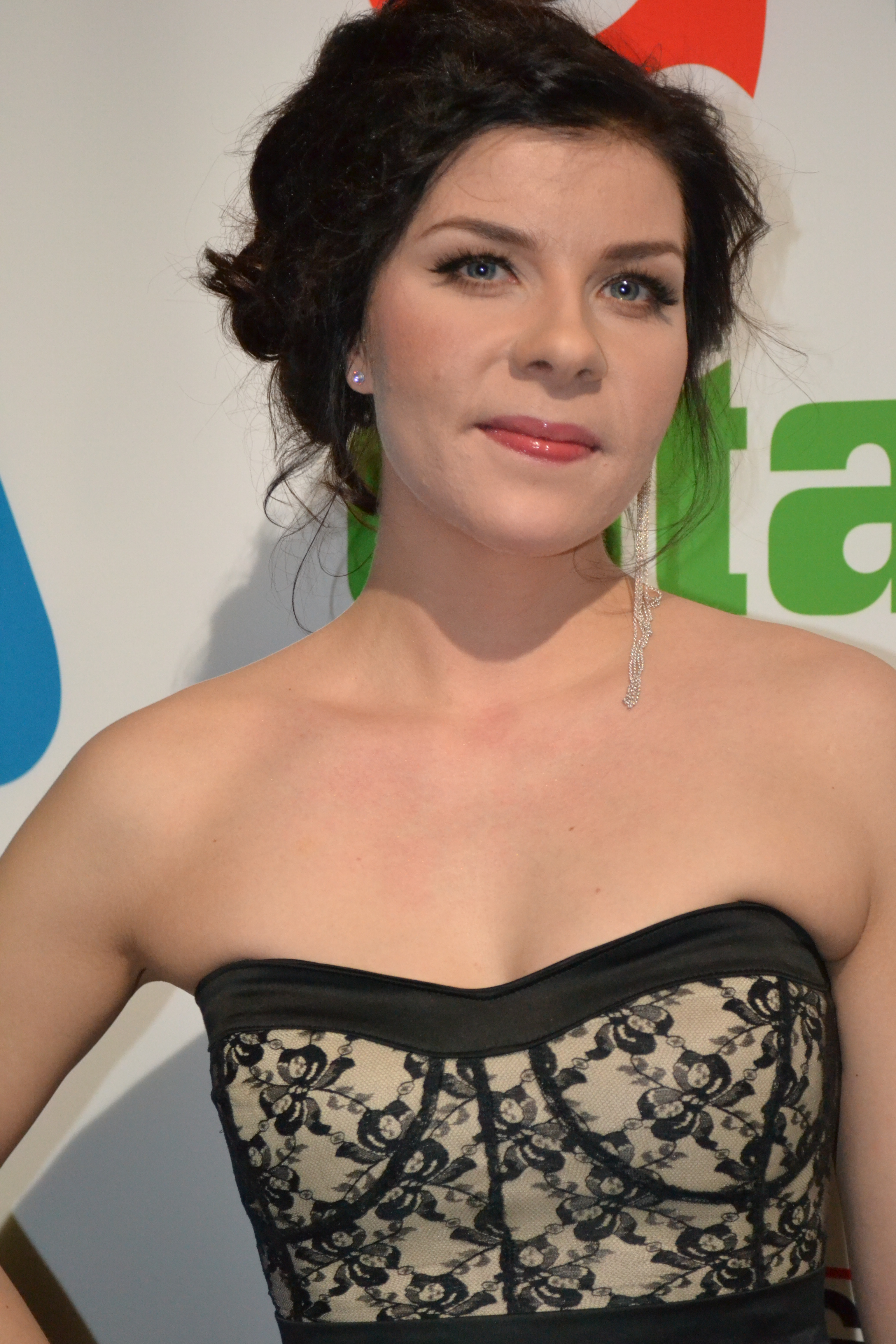 Armi Toivanen in 2013 Jussi Awards.